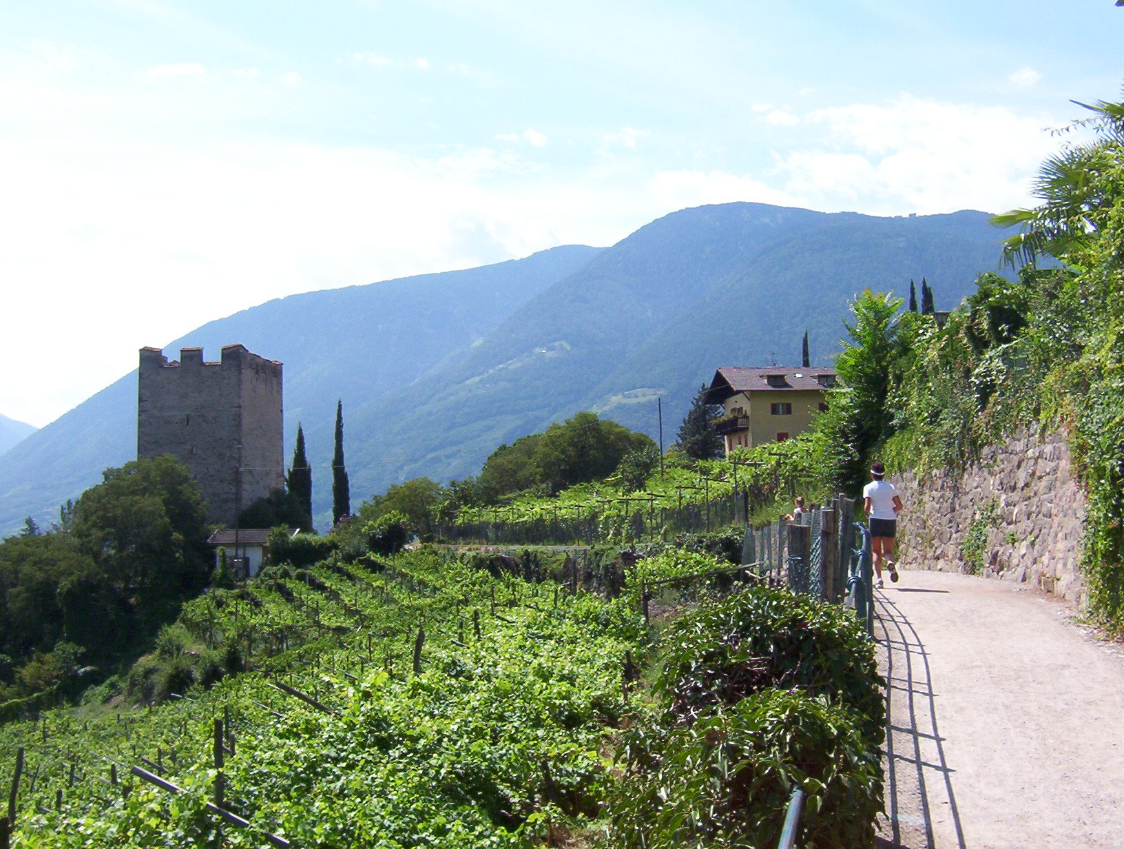 Italy: Meran